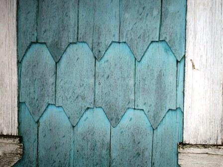 Tiles made of Patagonian cypress in a house of Chiloe, southern Chile